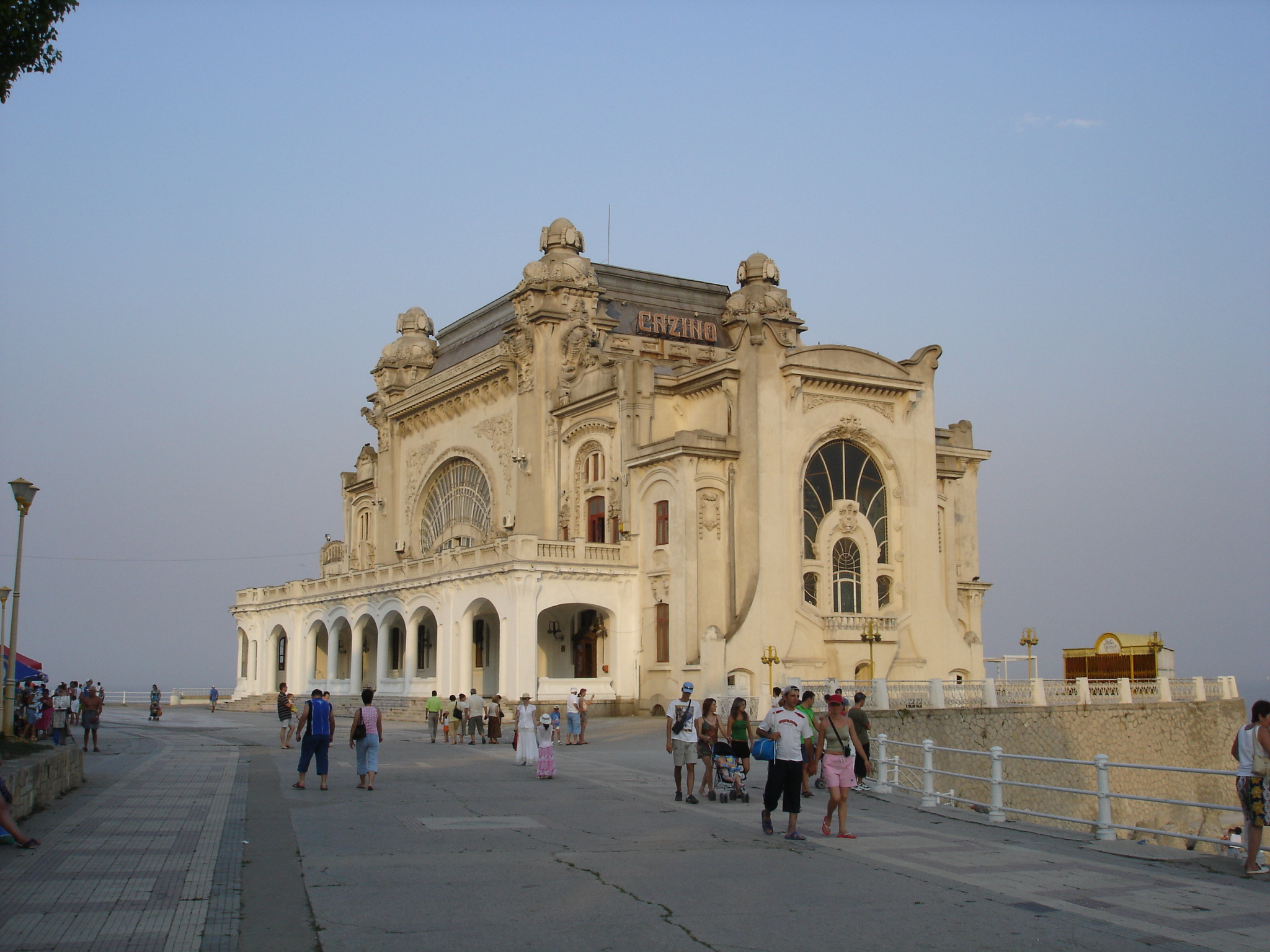 Old Casino - The Sights of the Town Constanca